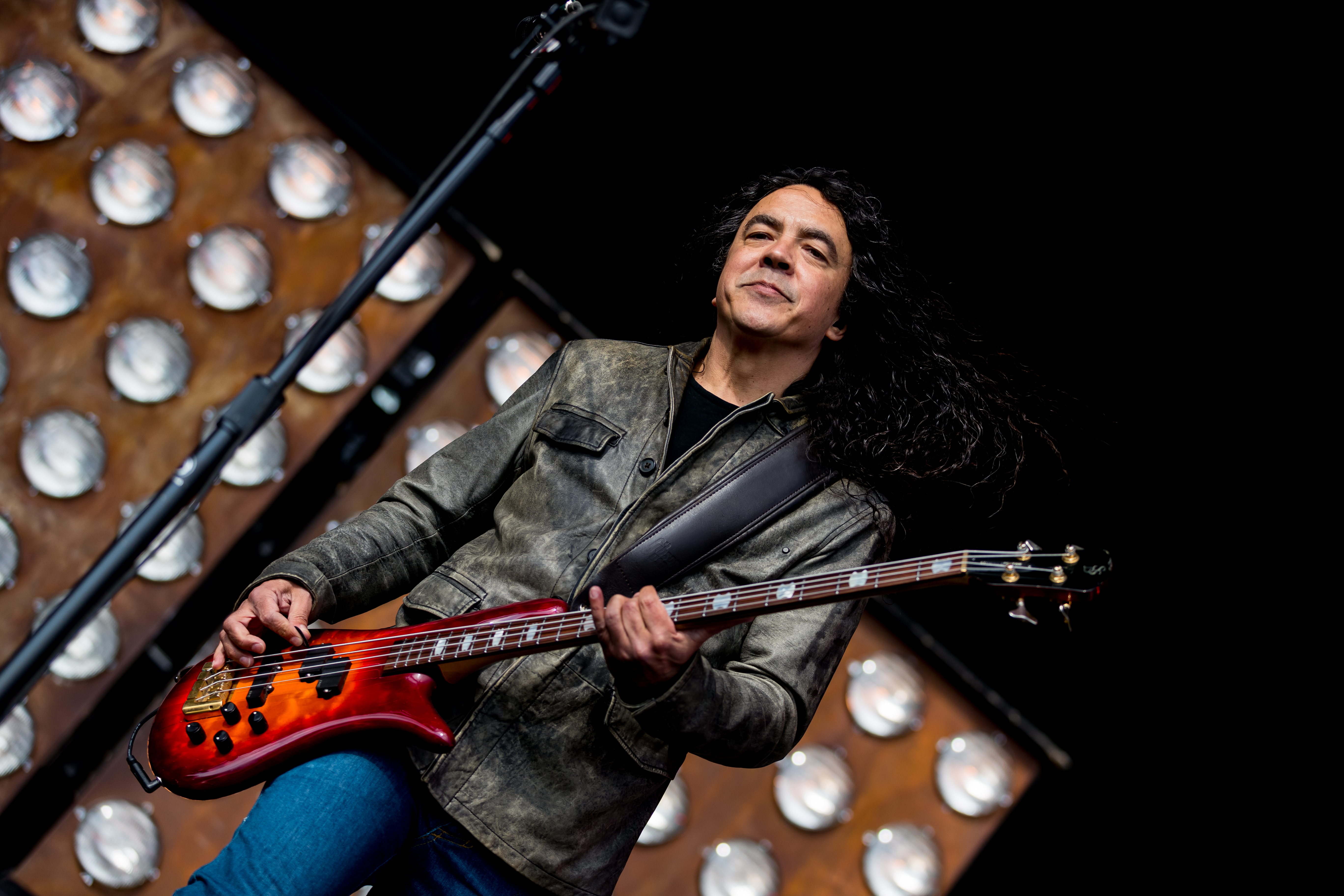 Alice in Chains during Rock am Ring ( at Nürburgring, Rheinland-Pfalz, Germany on 2019-06-07, Photo: Sven Mandel Promotion by Live Nation (